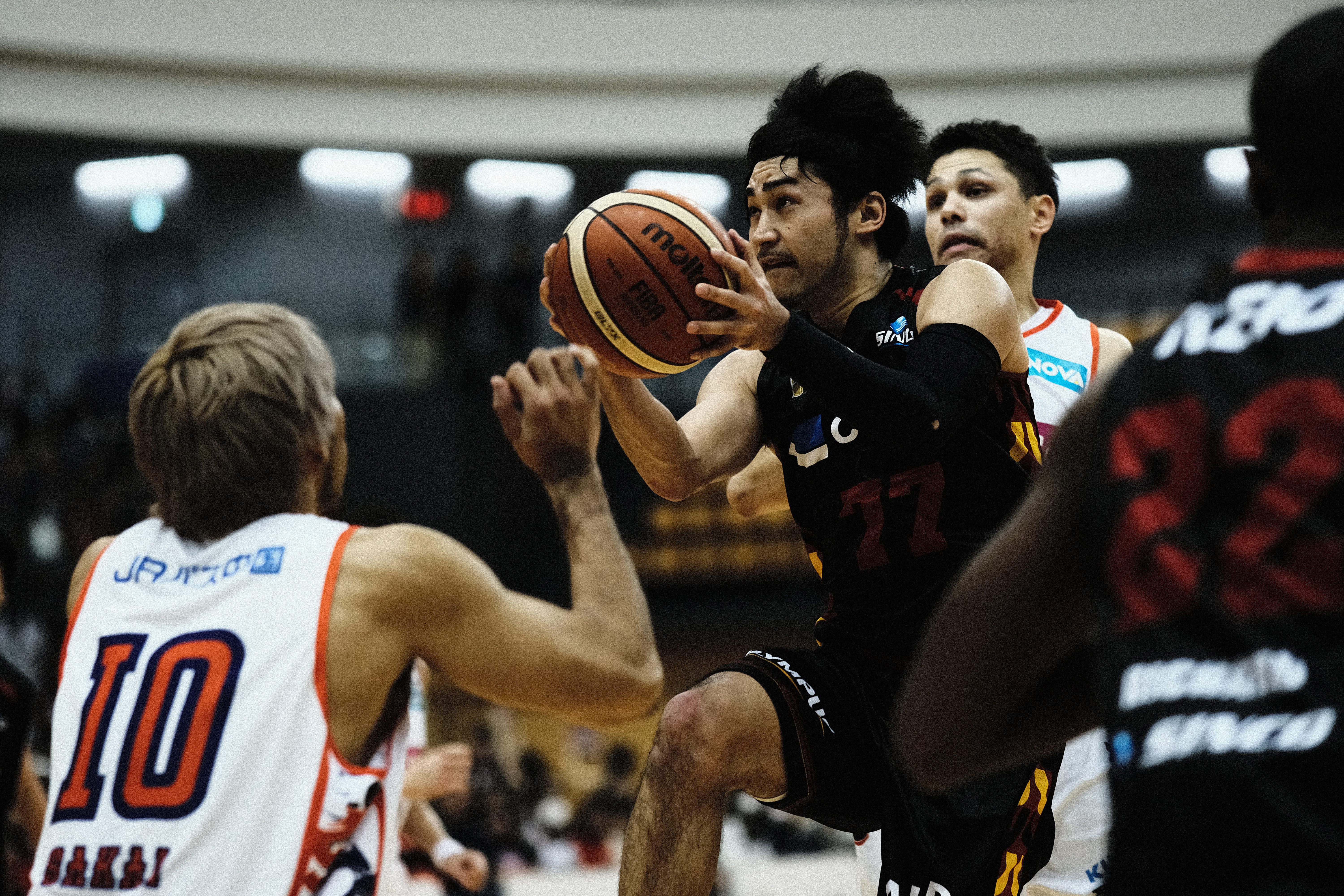 Bee-trains